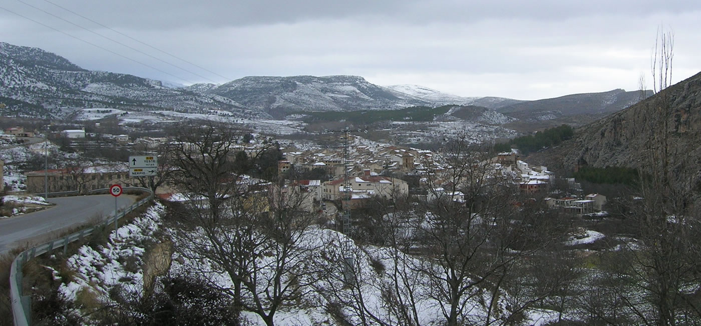 Nerpio, Albacete, Spain-España. Own work, given to PD.